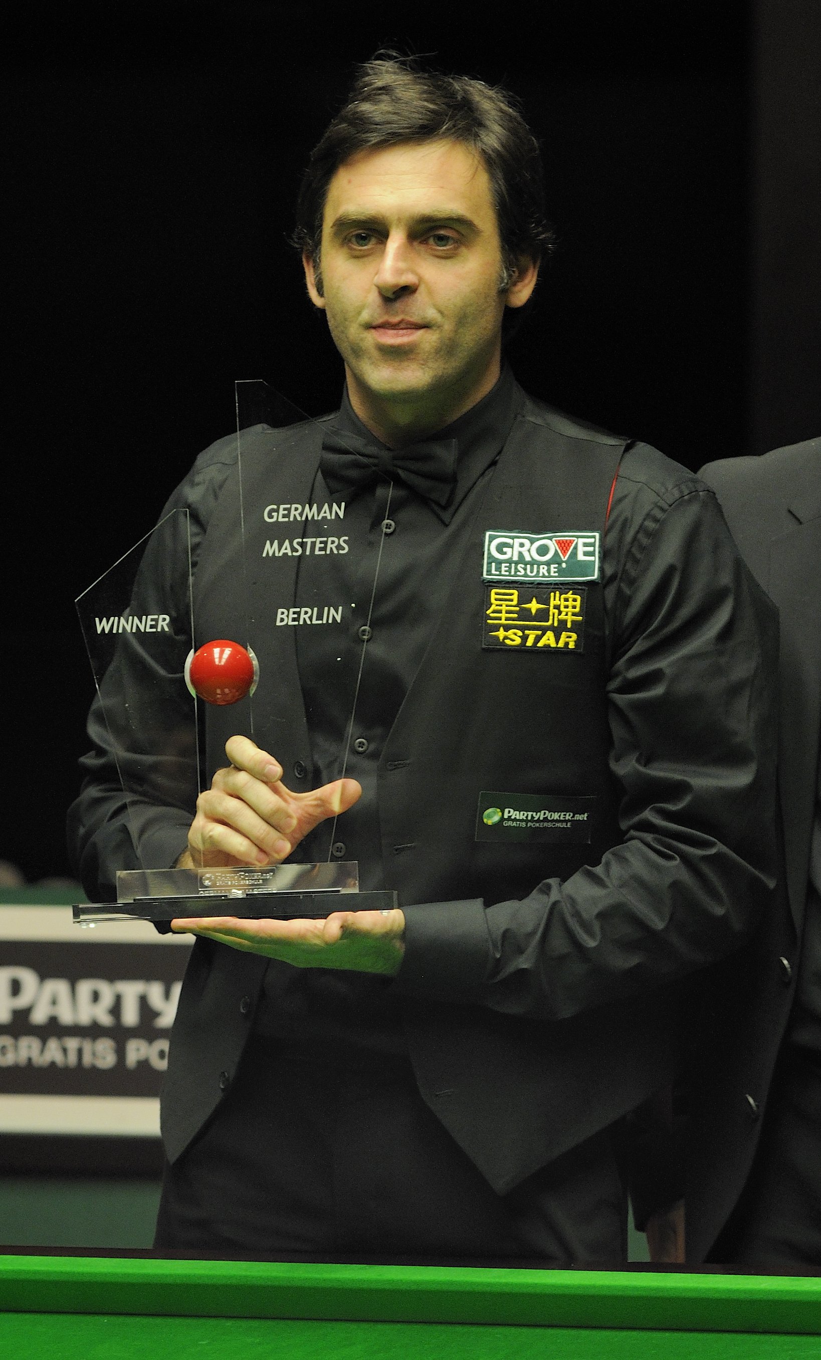 Picture taken in Berlin during the Snooker German Masters in 2011. Ronnie O’Sullivan.